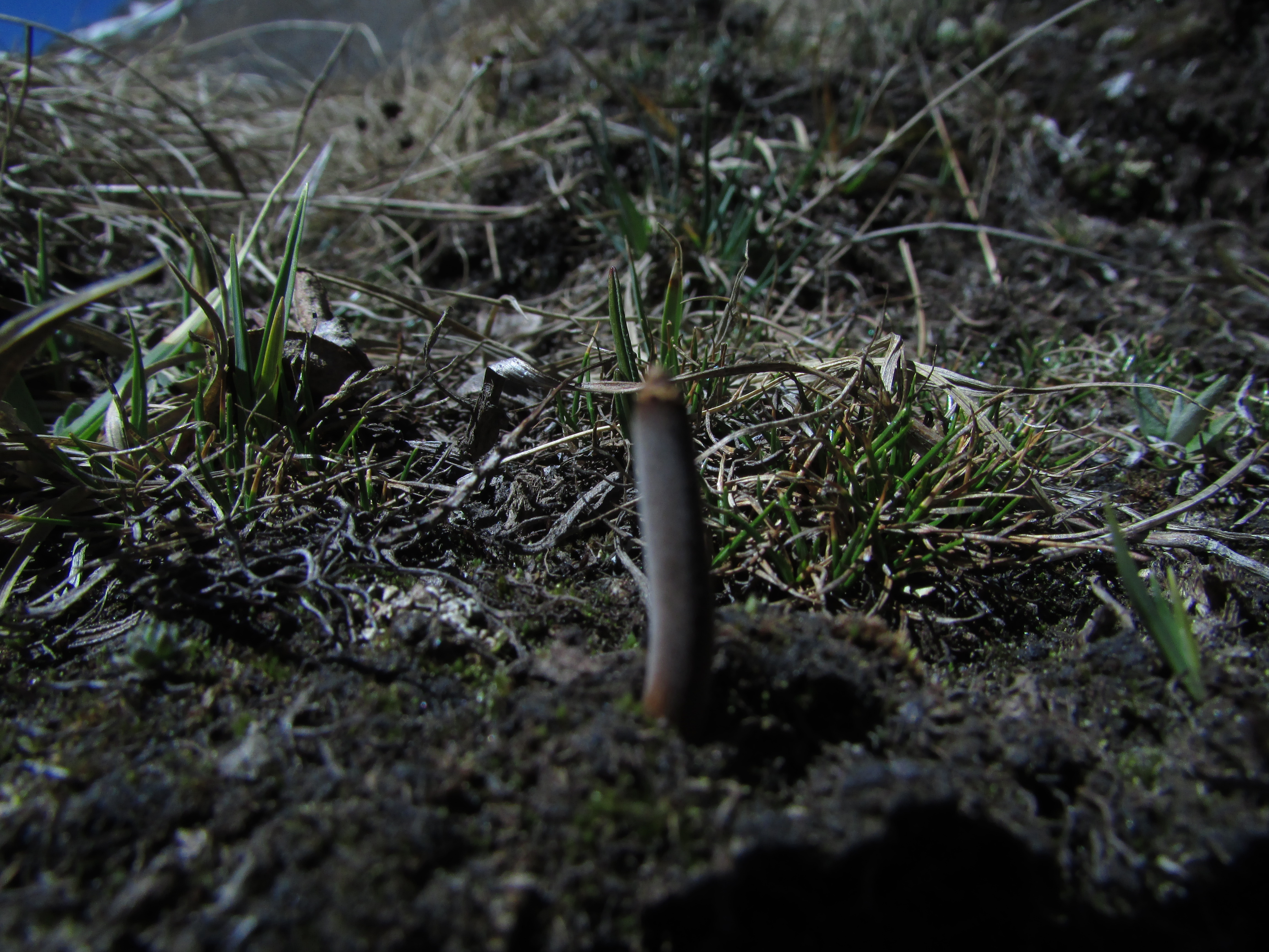 Yarchagumba